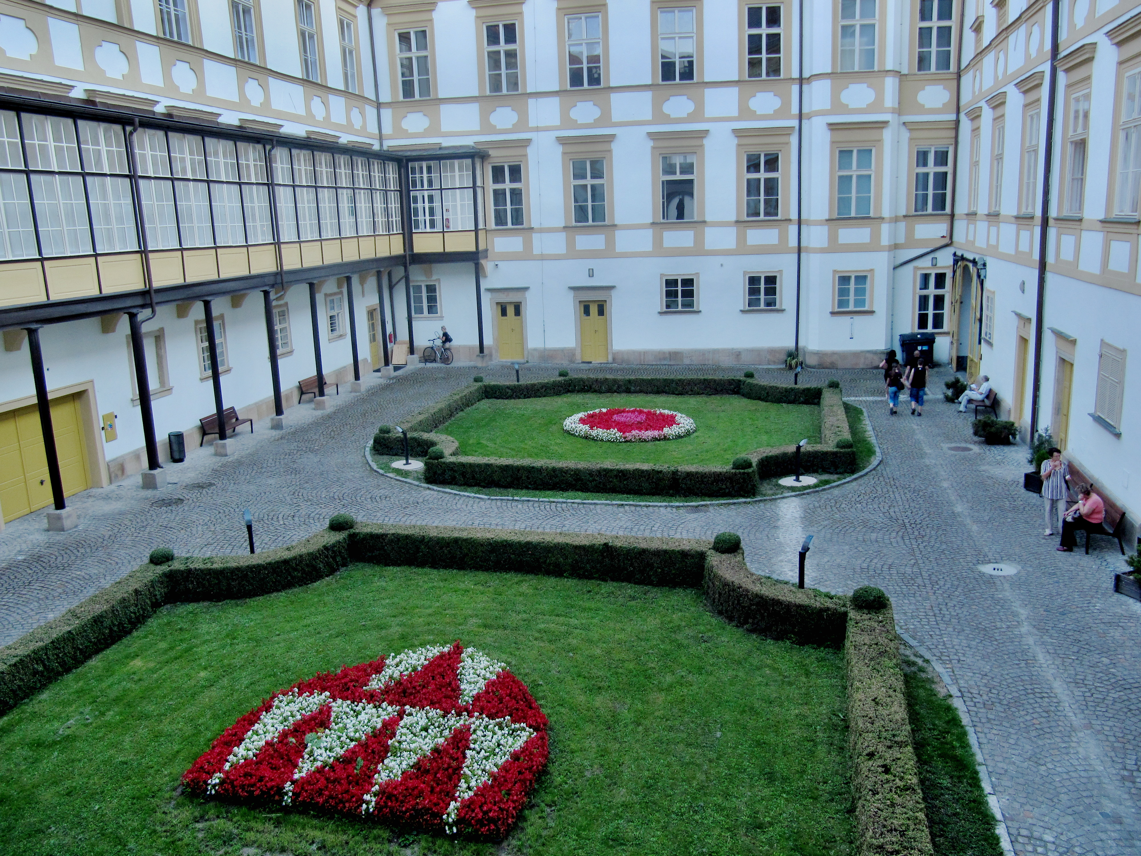 Olomouc, Czech Republic. Archbishop's Palace.